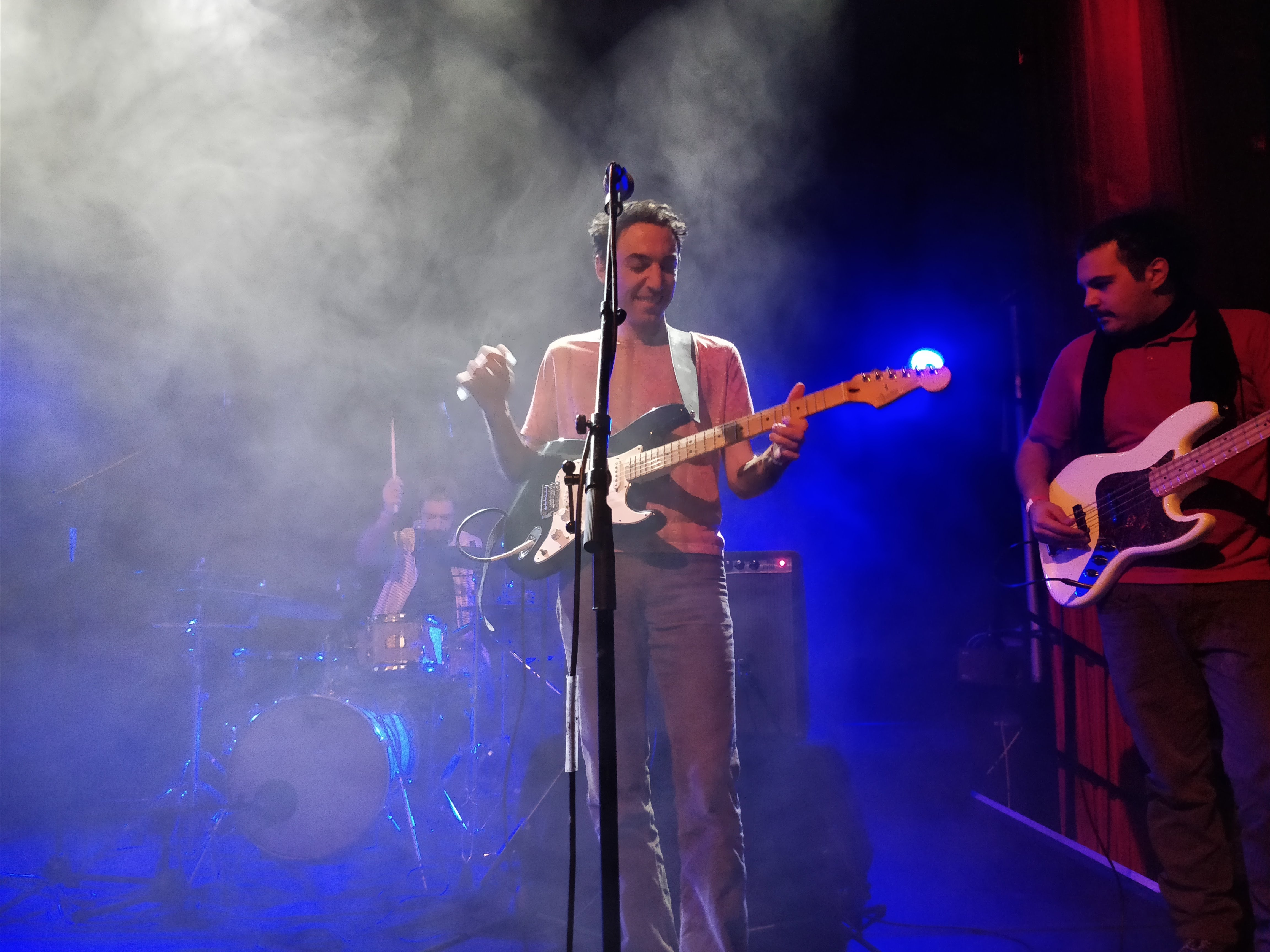 TootArd performing at Rich Mix London in February 2018. Picture shows lead singer and guitarist Hasan Nakhleh.